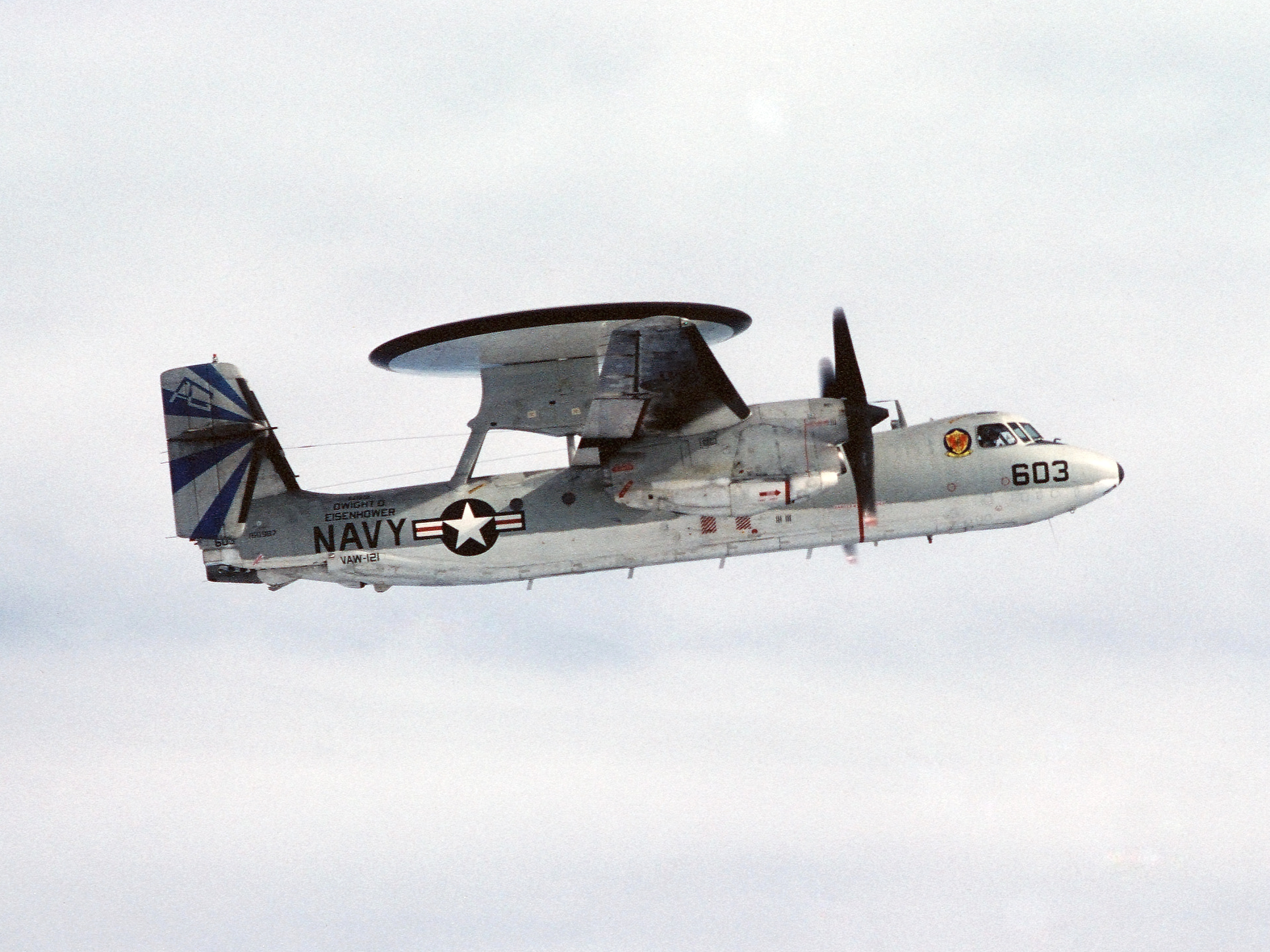 A U.S. Navy Grumman E-2C Hawkeye of Carrier Airborne Early Warning Squadron 121 (VAW-121) in flight during Carrier Air Wing 7 (CVW-7) strike training on 11 April 1987. CVW-7 was assigned to the aircraft carrier USS Dwight D. Eisenhower (CVN-69) for her shakedown cruise to the Caribbean from 21 June to 22 July 1987.